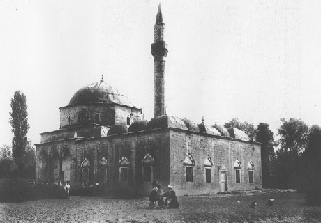 Lead Mosque in Shkoder